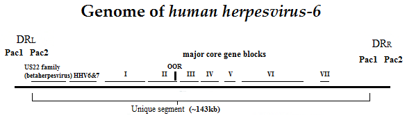 Drawing of human herpesvirus-6 genome